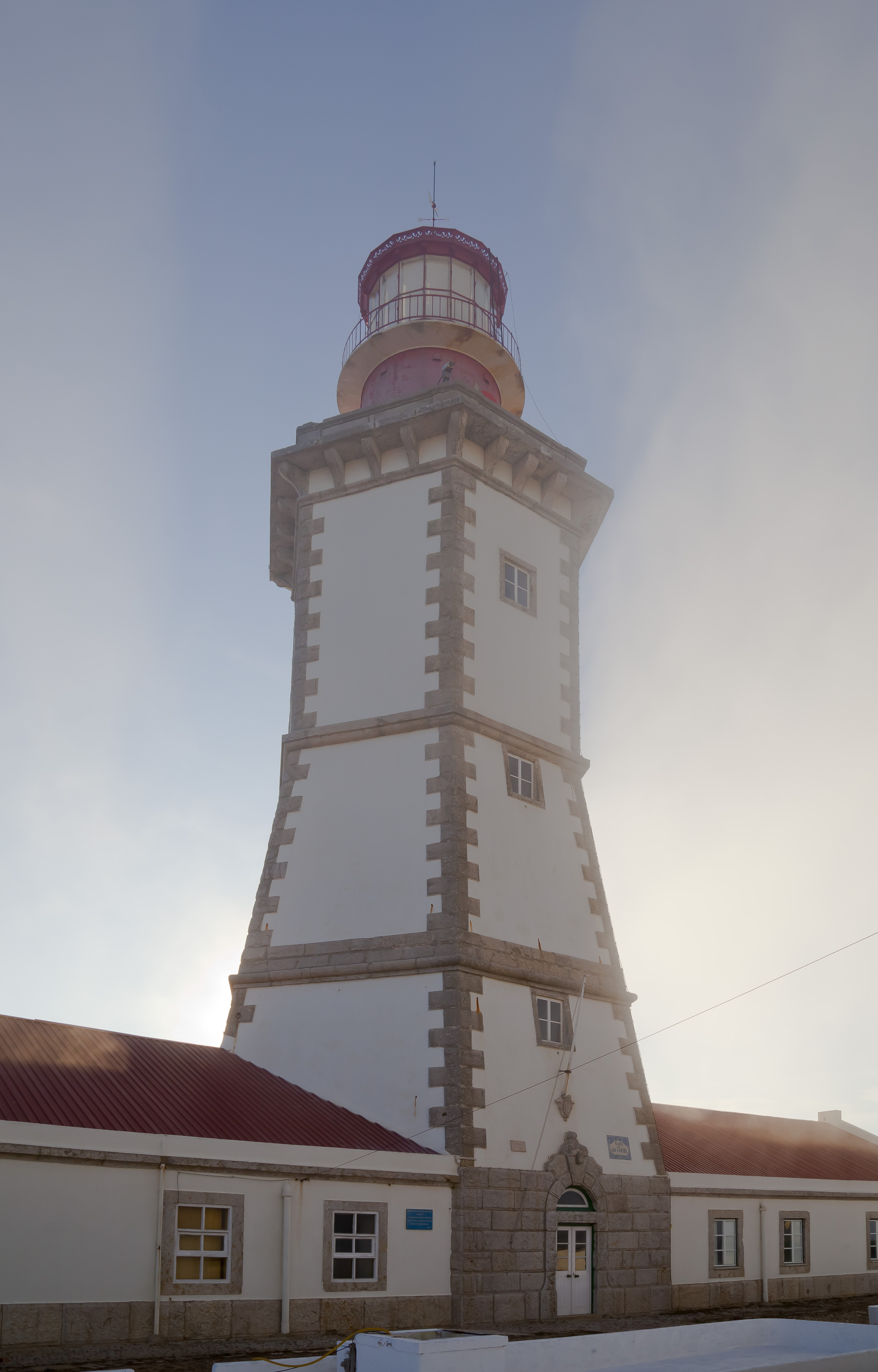 Cape Espichel Lighthouse, Portugal